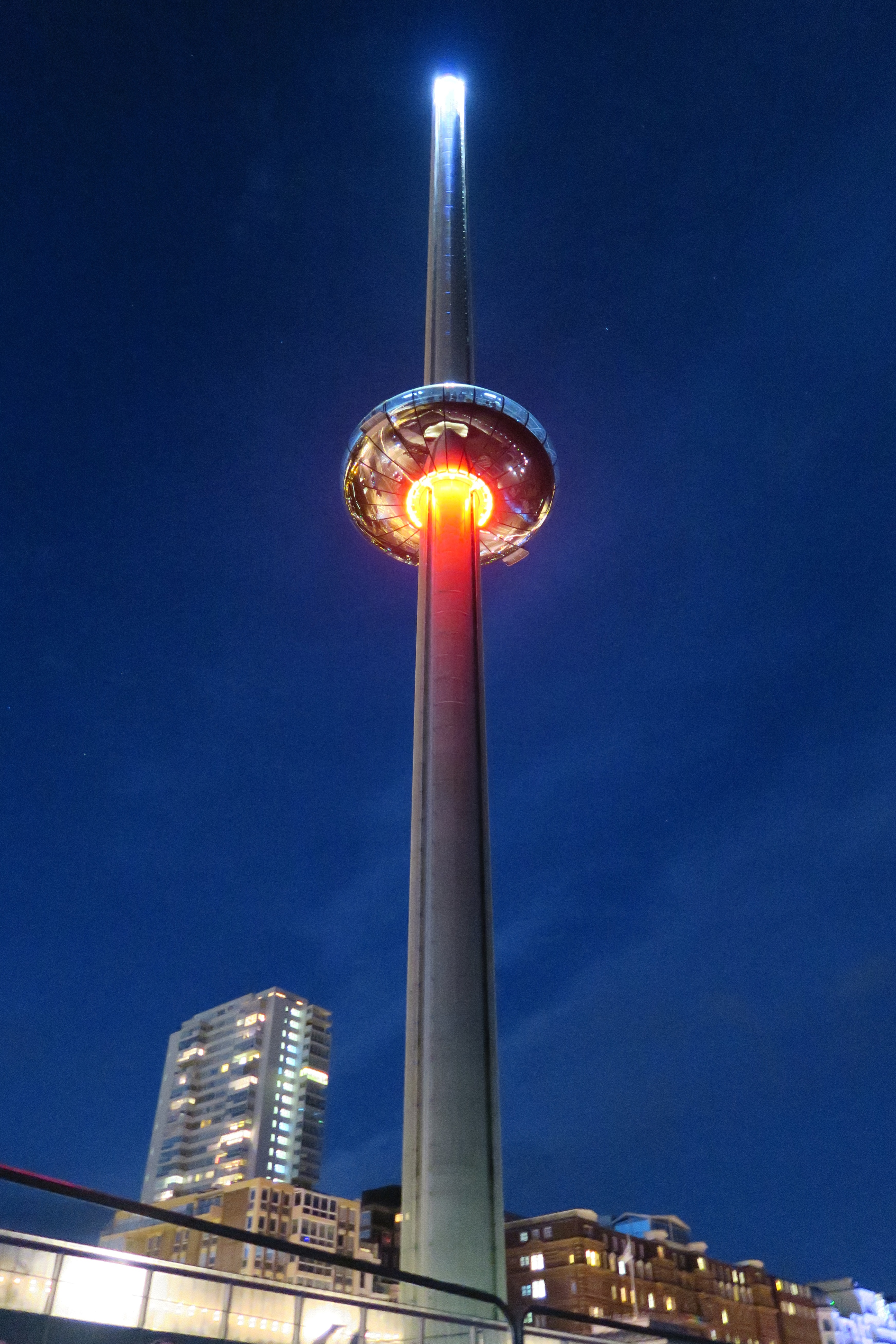 i360 Brighton on opening night